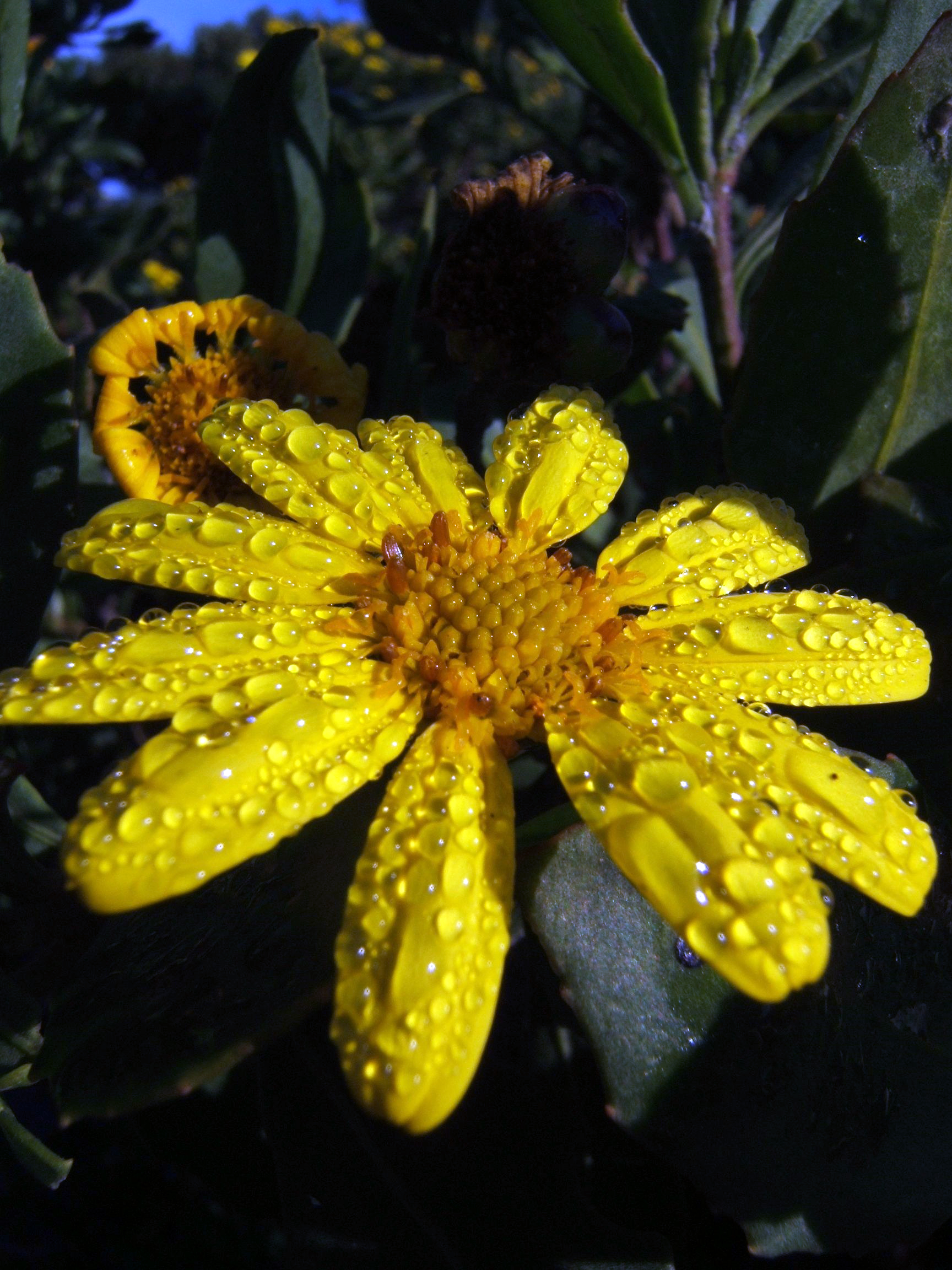 Chrysanthemoides monilifera (Rondevlei Nature Reserve, South Africa)